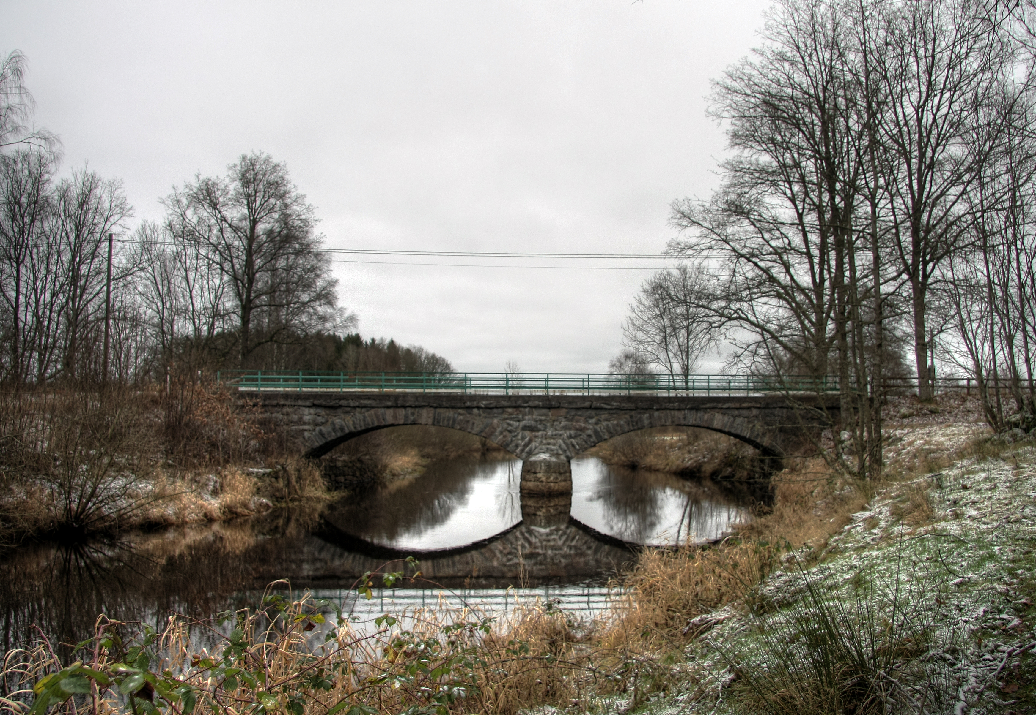 Bridge over Almaån by Almedal in Hässleholm Municipality in Sweden